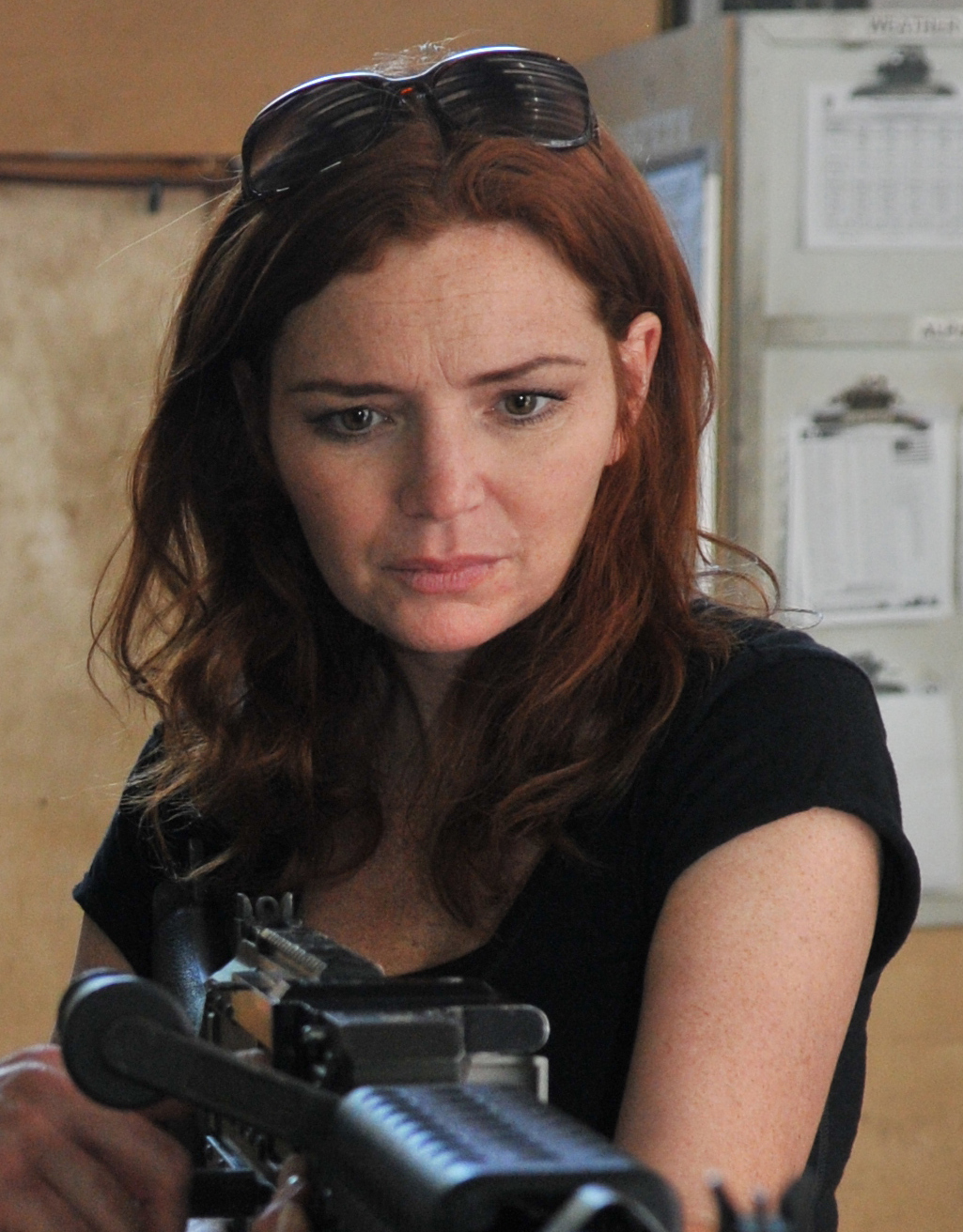 Brigid Brannagh, from the show Army Wives, visits the Transit Center at Manas, Kyrgyzstan, as part of an Armed Forces Entertainment tour on May 12, 2011. (U.S. Air Force photo/Staff Sgt. Stacy Moless)